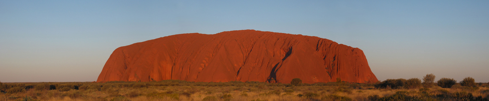 Panorama of Uluru at sunset. Picture created by stitching five individual photographs together.